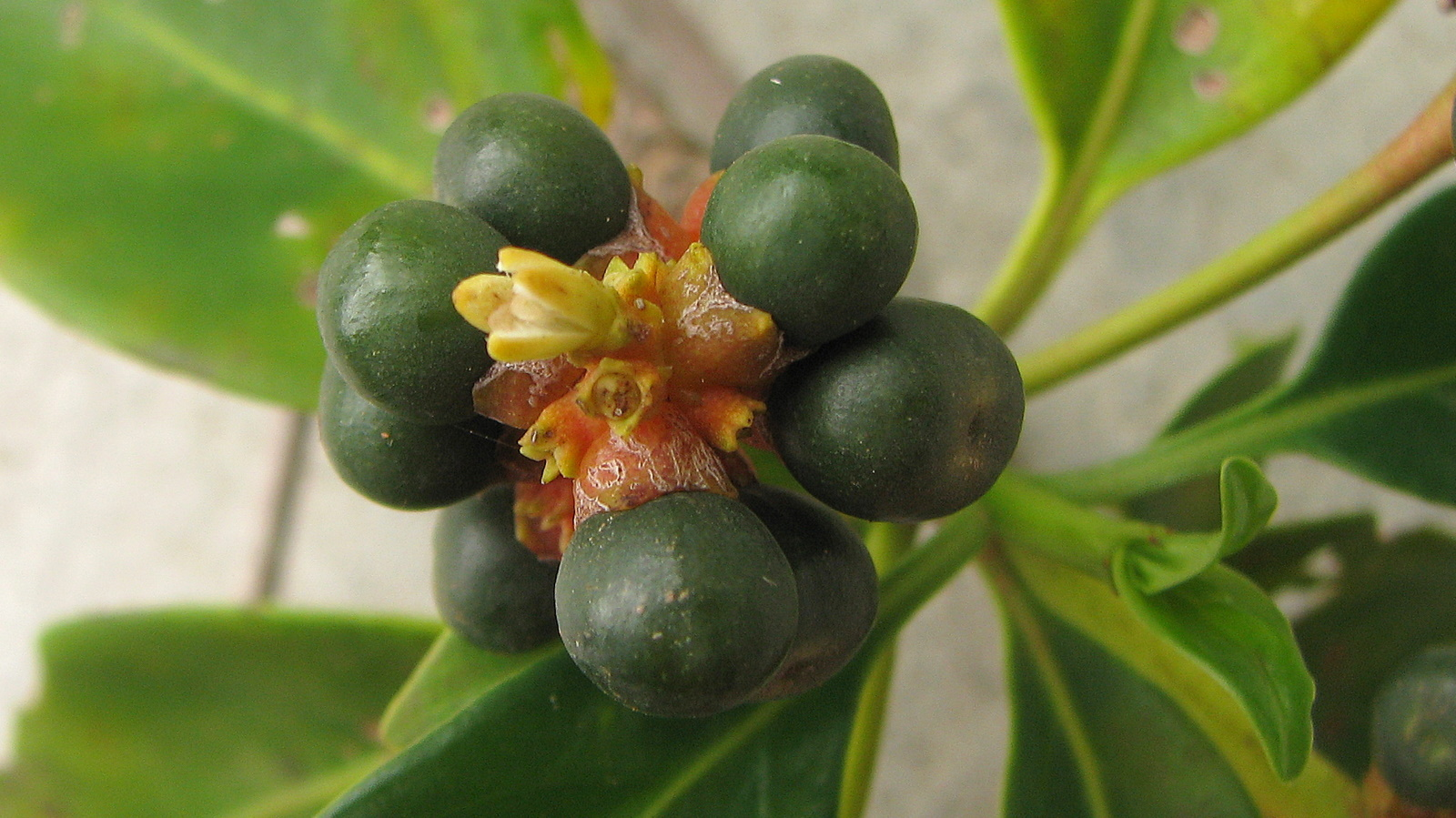 One of the few Rubiaceae with a superior ovary.